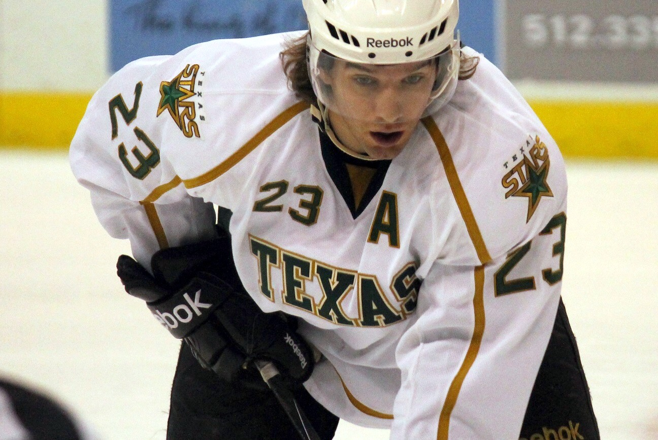 Travis Morin of the Texas Stars